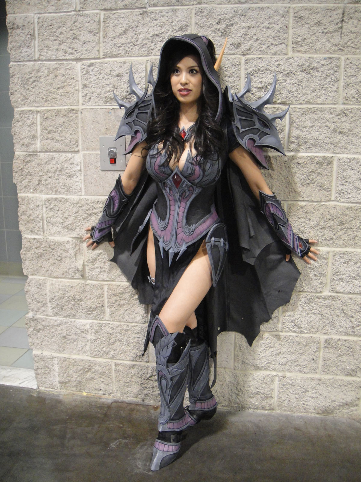 photo 2011 taken by Doug Kline If you're interested in higher resolution versions of my images, contact me via my profile page.